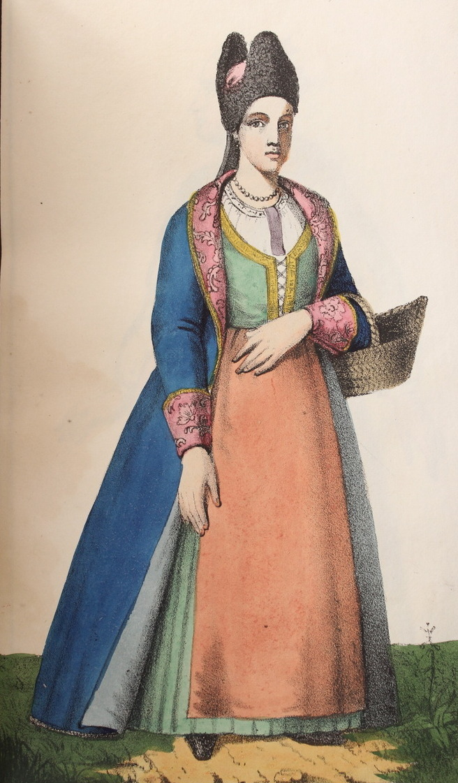 Ukrainian town girl